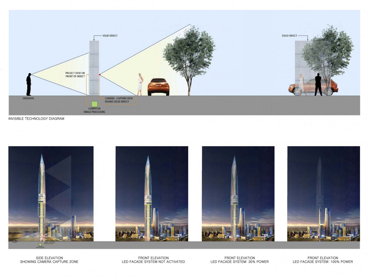 [ 準建築人手札網站 Forgemind ArchiMedia 首爾興建世界首座「隱形」大樓 拉升南韓旅遊業 GDS Architects 建築師事務所設計]